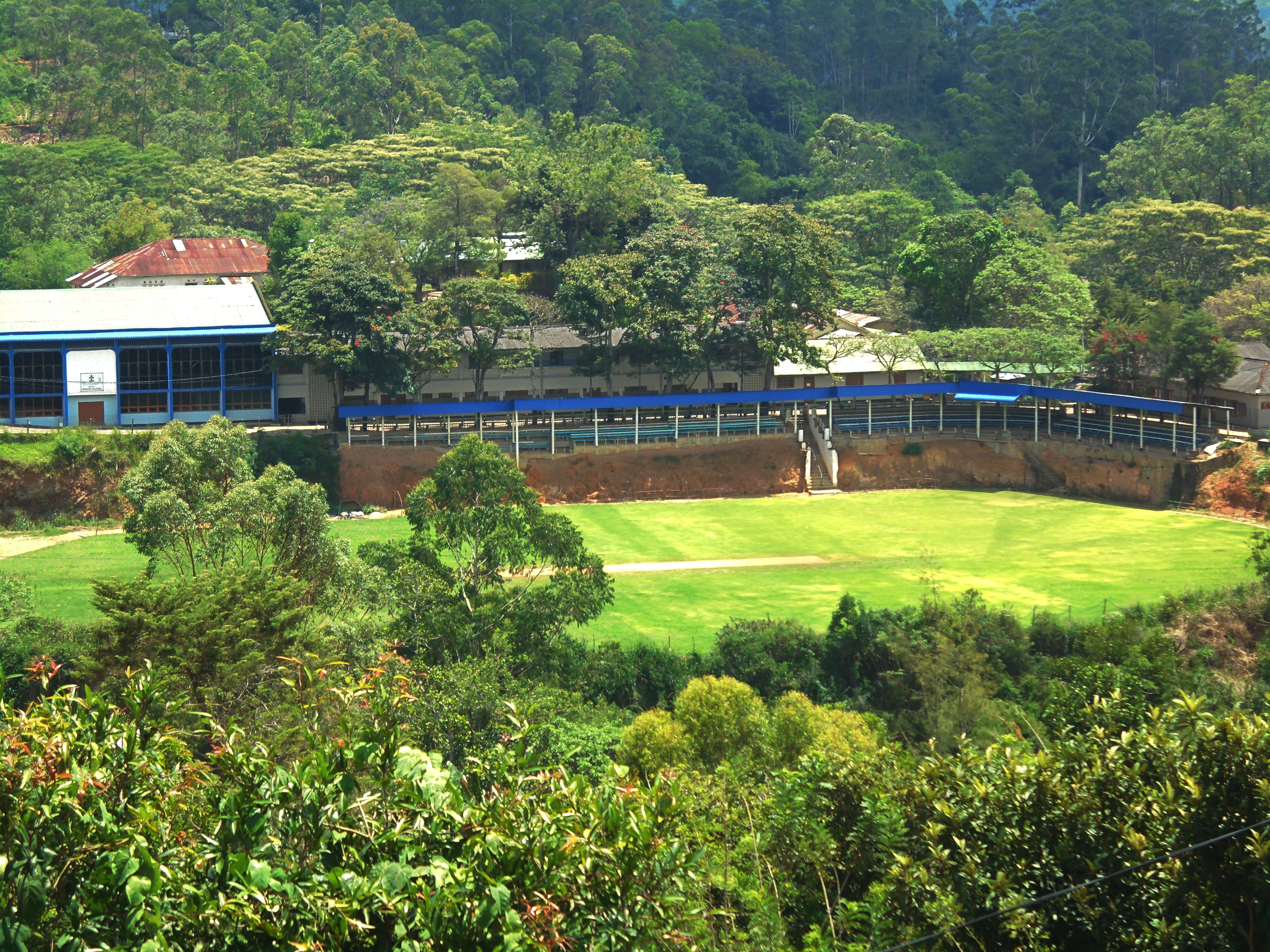 College ground was restored to a better state.